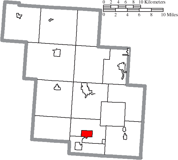 Map of the municipal and township boundaries of Perry County, Ohio, United States, as of the 2000 census, with the location of the village of Shawnee highlighted. Township borders are shown only in unincorporated areas in order to differentiate incorporated and unincorporated areas more clearly.